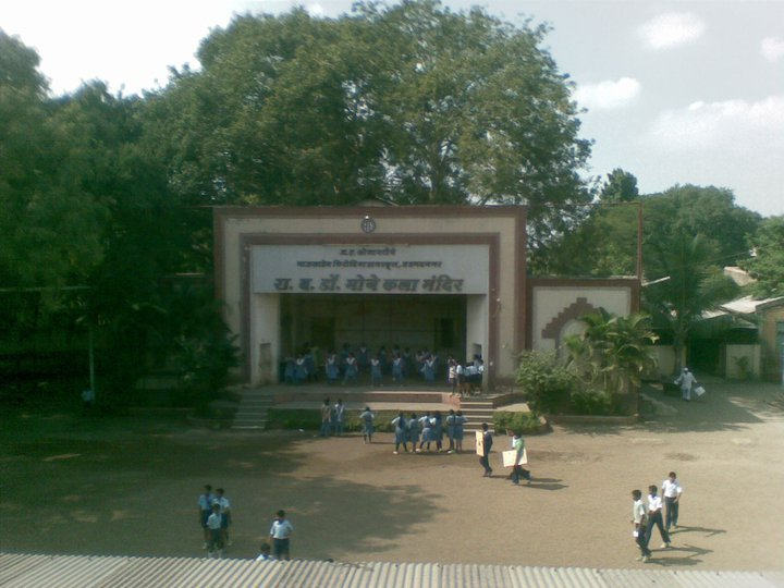 Bhausaheb Firodiya Highschool Photo